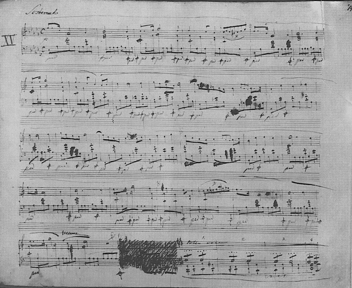 This is a copy of Chopin's Autograph of the first page of his Prelude 15. Note how he scratches out several measures of the score at the point where the Prelude changes from Db Major to C# Minor.